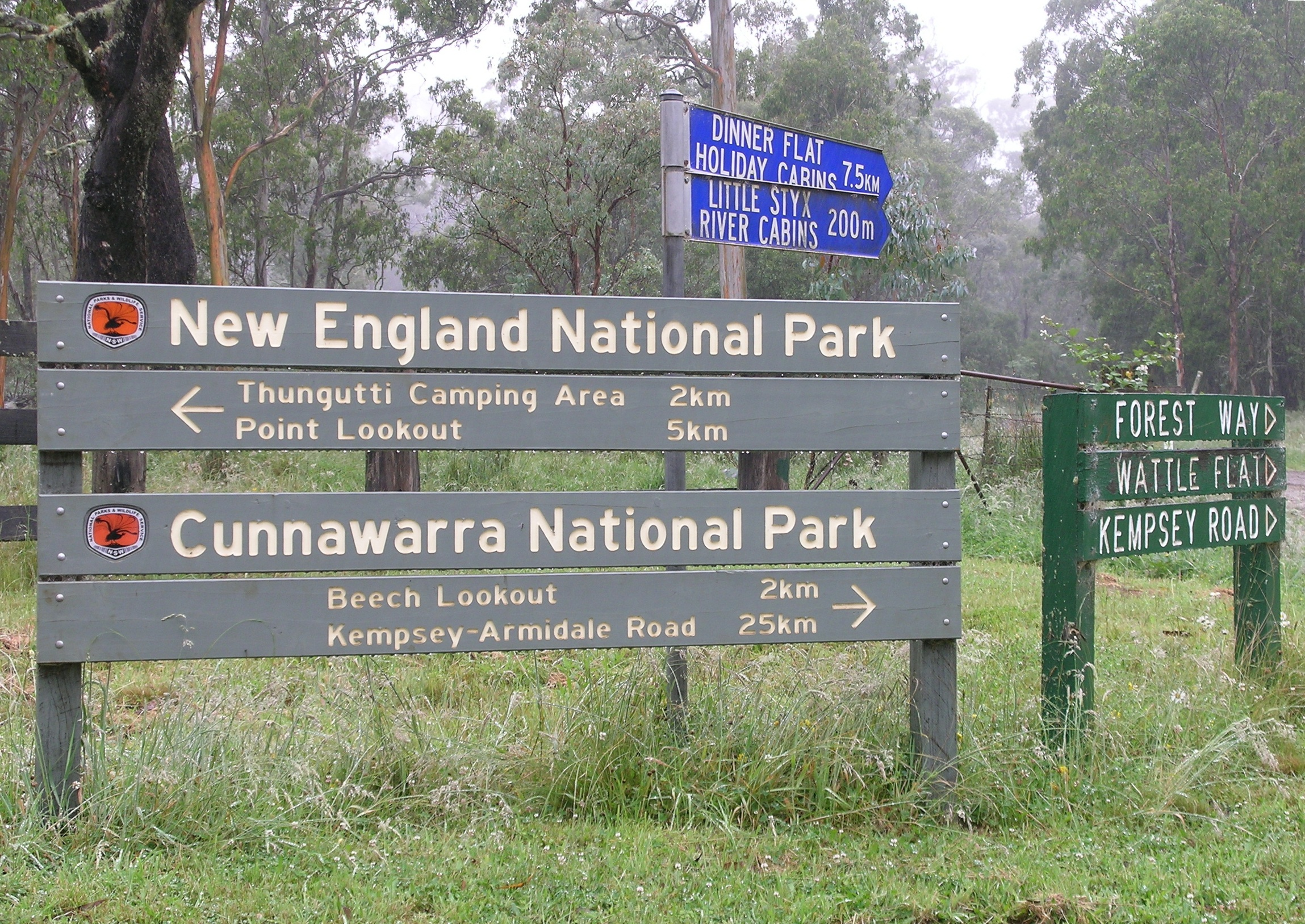 Cunnawarra National Park, NSW